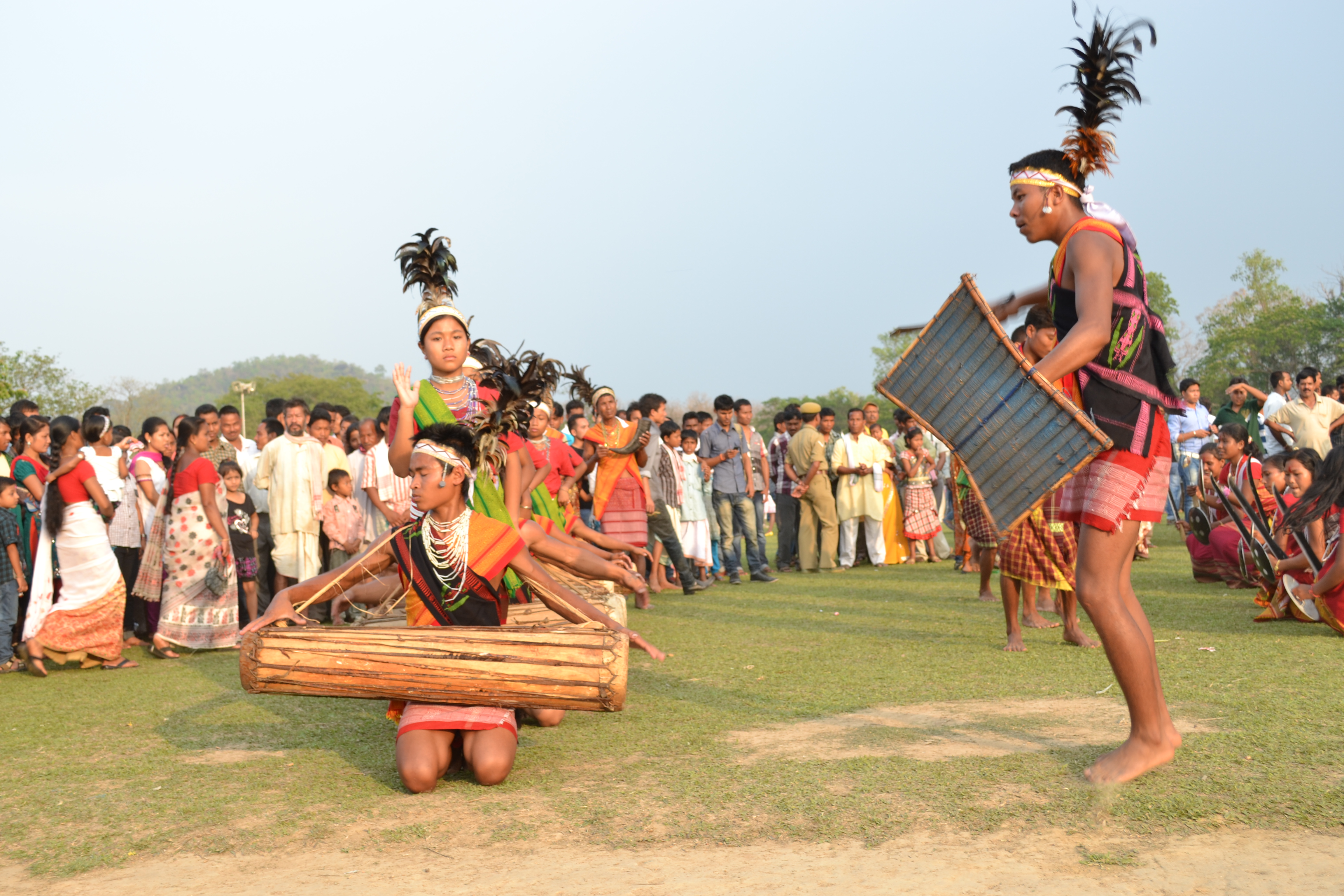 A moment of Wangala dance of Garo community of Assam.